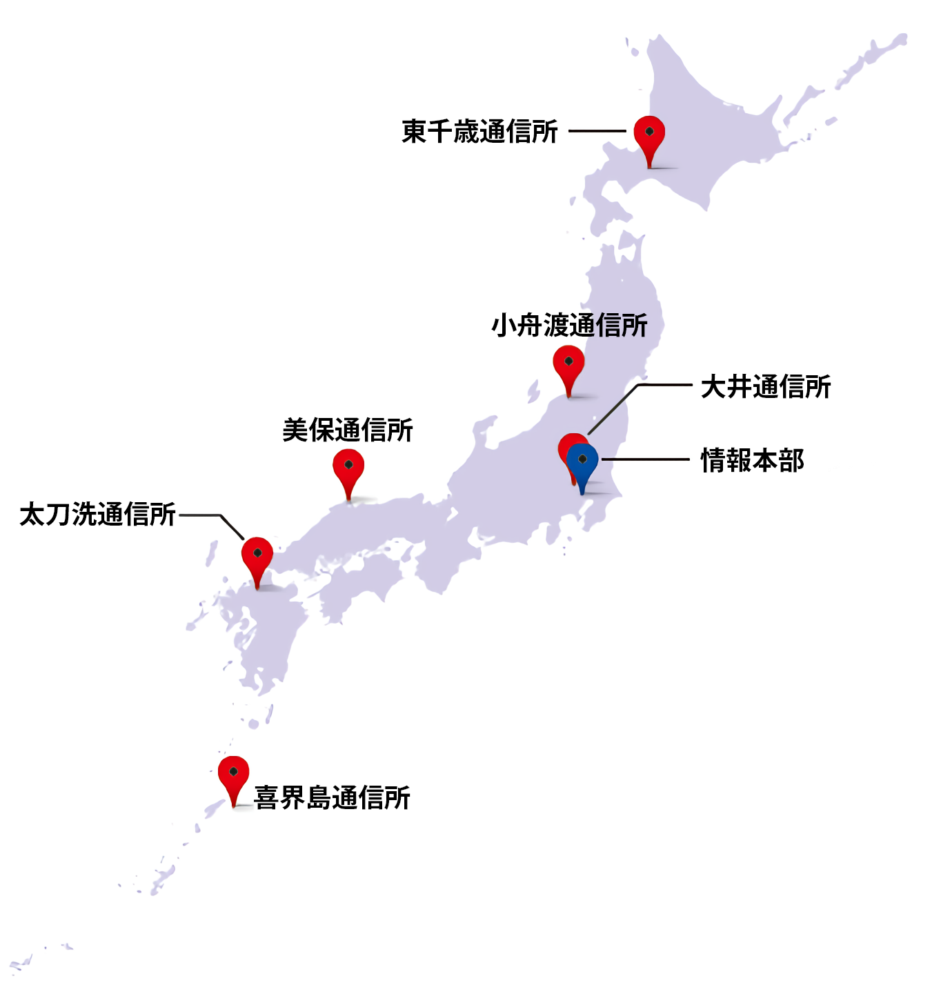 A map of Japan with DIH facilities (comm stations), including its headquarters.